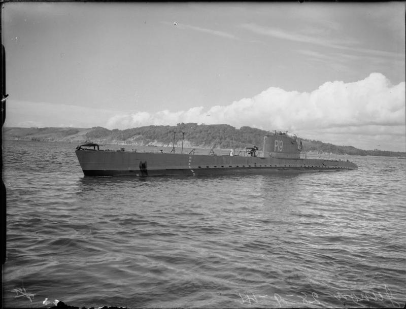 Ffs Junon At a buoy in Plymouth Sound.